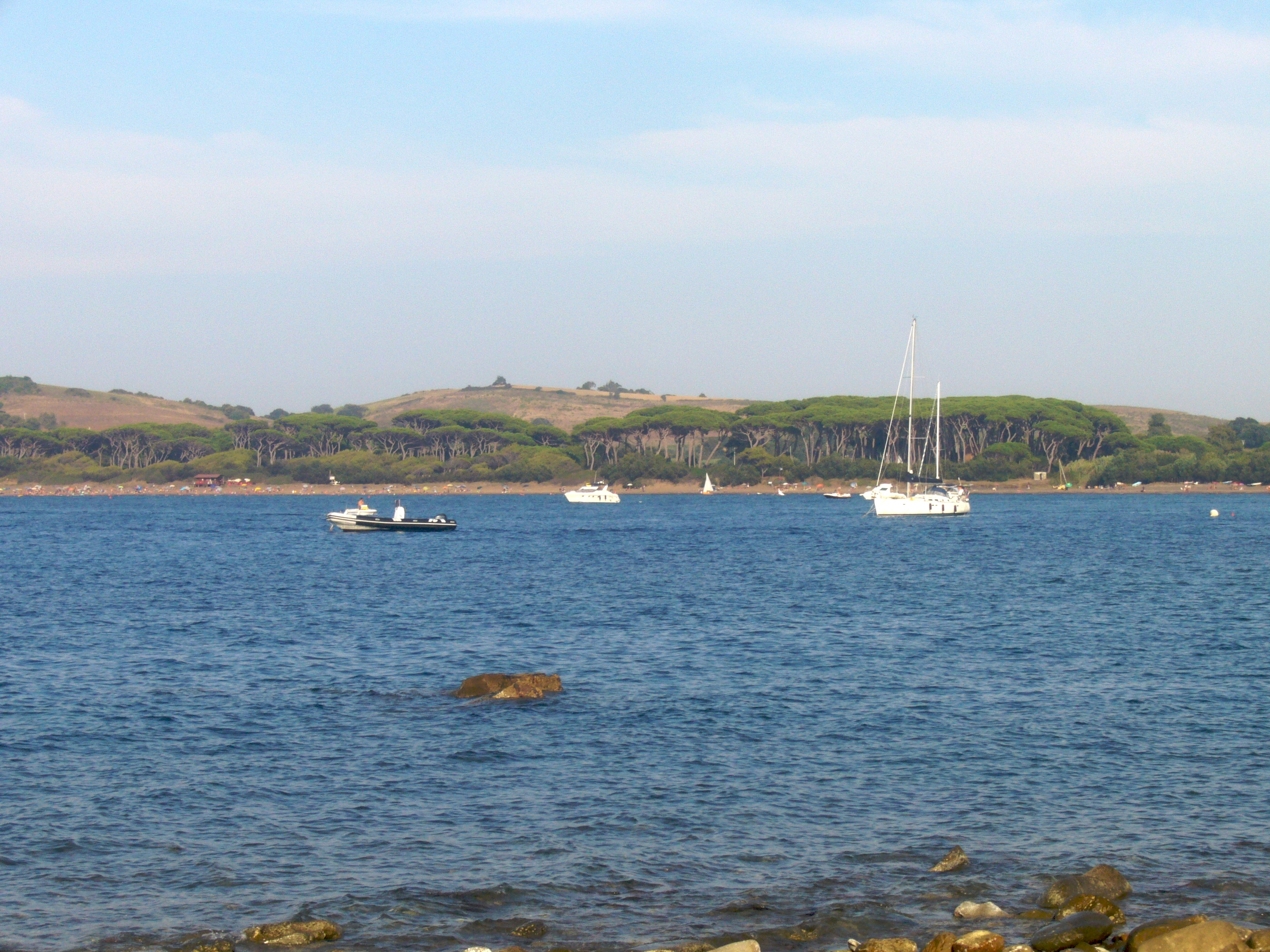 Golfo di Baratti — gulf and bay on the coast of the Mediterranean Sea in the Province of Livorno, Tuscany.